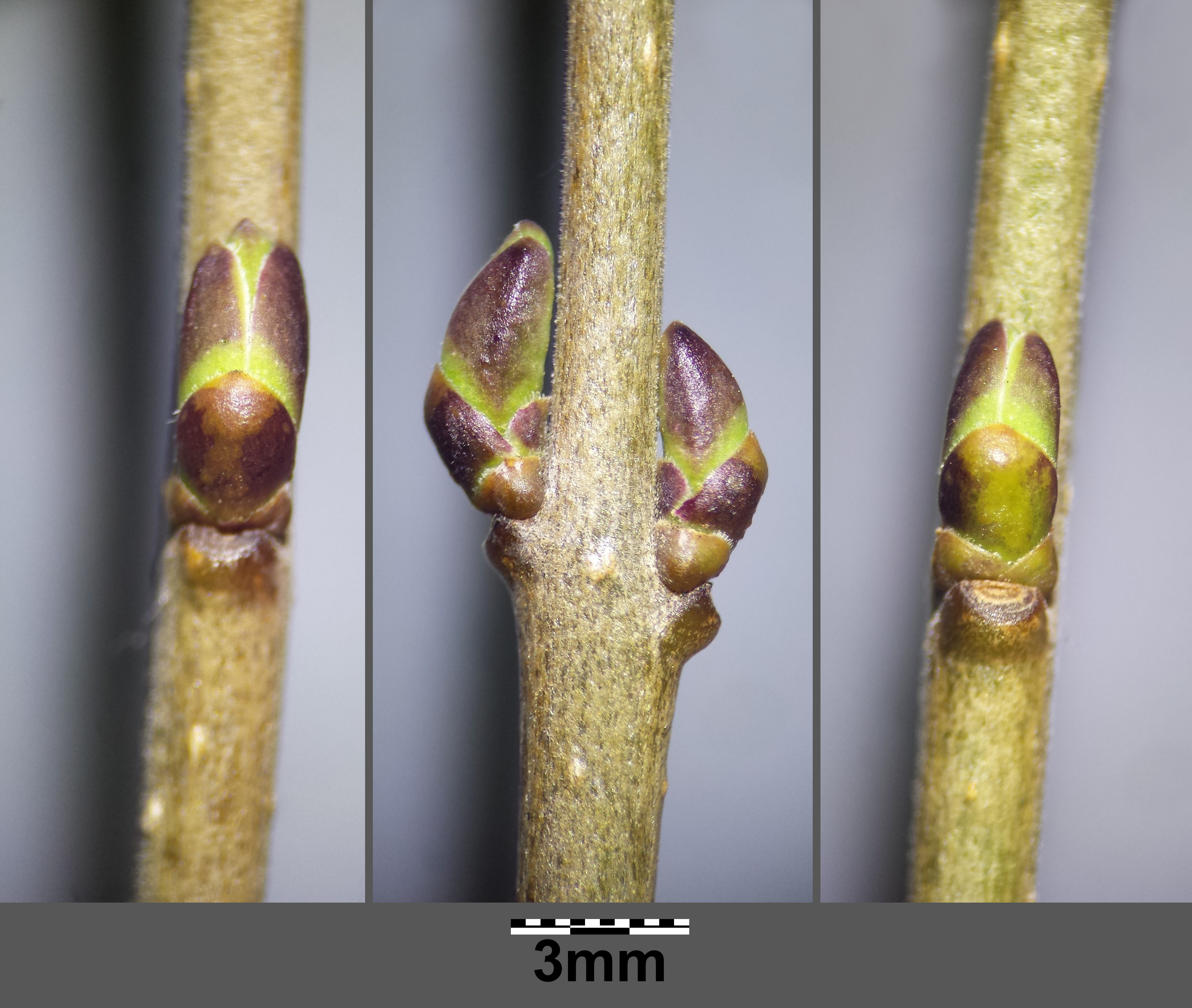 Buds Taxonym: Ligustrum vulgare ss Fischer et al. EfÖLS 2008 ISBN 978-3-85474-187-9 Location: Bisamberg/Falkenberg, Vienna/Lower Austria - ca. 300 m a.s.l. Habitat: Carpinion betuli